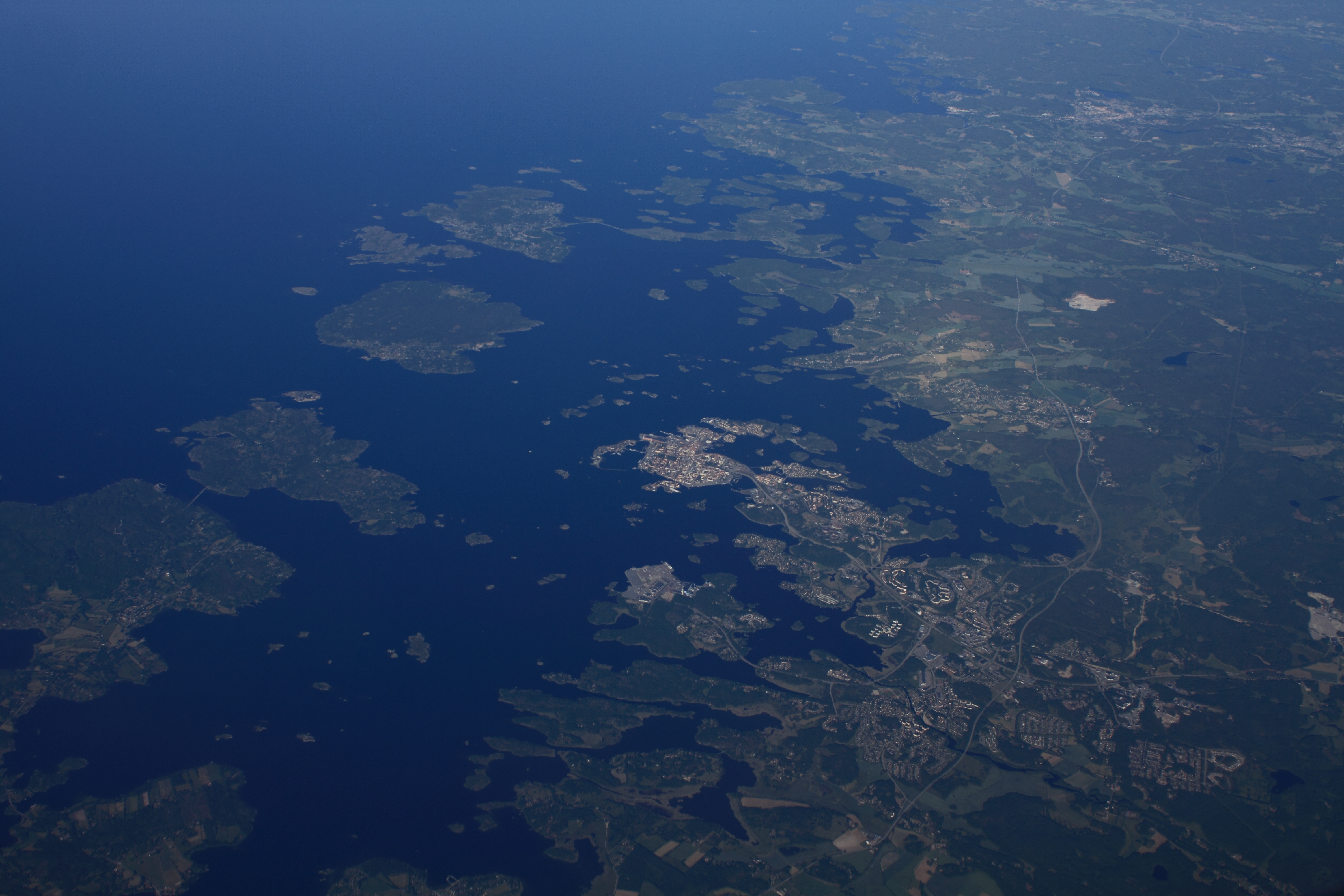 The city of Karlskrona in the south of Sweden seen from a commercial flight between Norway and Poland. For an idea of scale, the town in the distance - Ronneby - is 30km away.